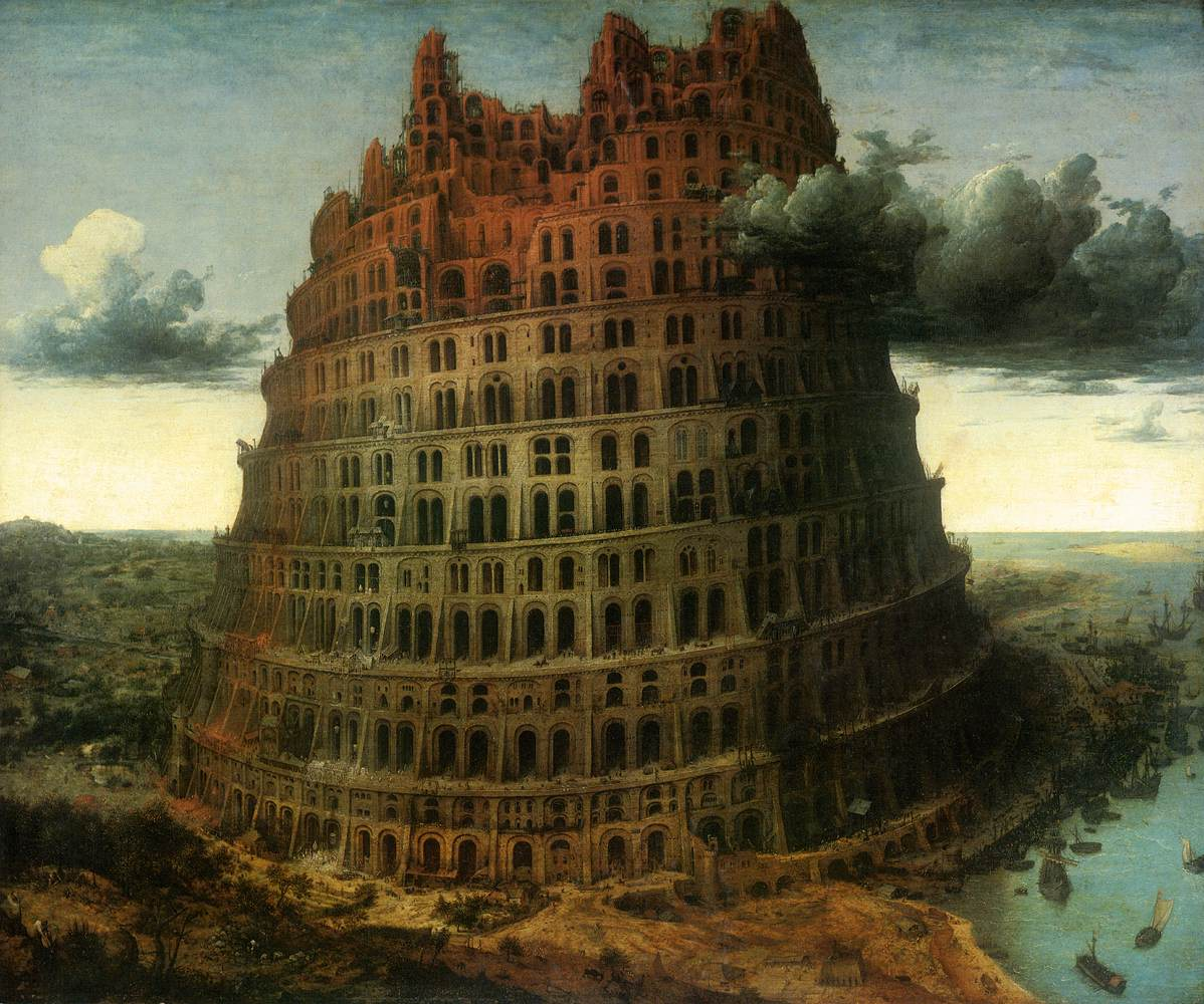 Bruegel painted three versions of the Tower of Babel. One is kept in the Museum Boijmans Van Beuningen in Rotterdam, the second in the Kunsthistorisches Museum in Vienna (see Category:The Tower of Babel by Pieter Bruegel the Elder), while the location of the third version (a miniature on ivory) is unknown.